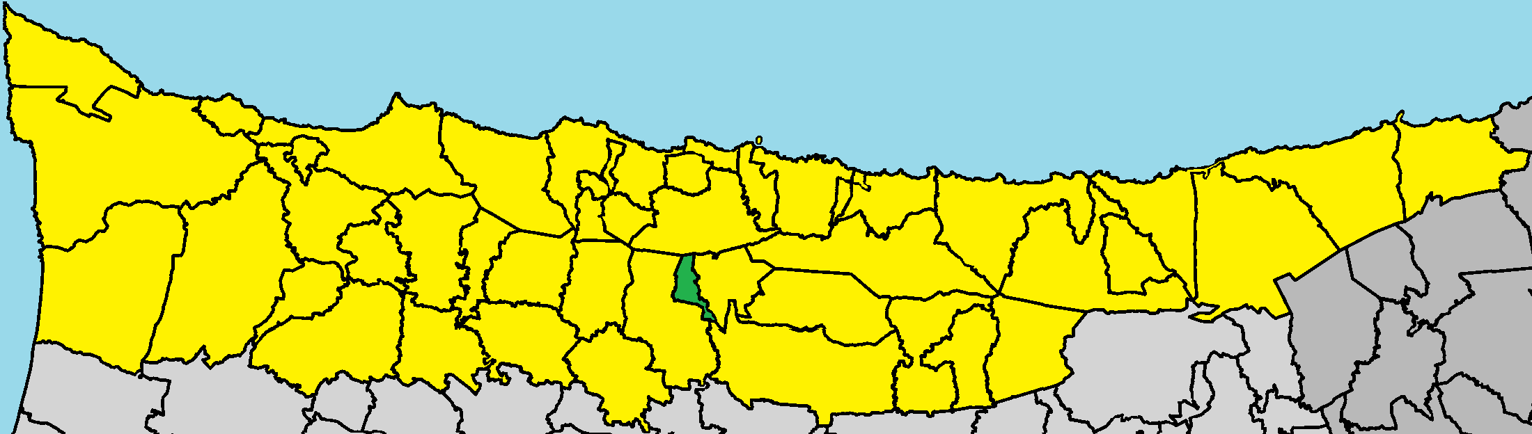 Kiomourtzou in Kyrenia District (de jure).